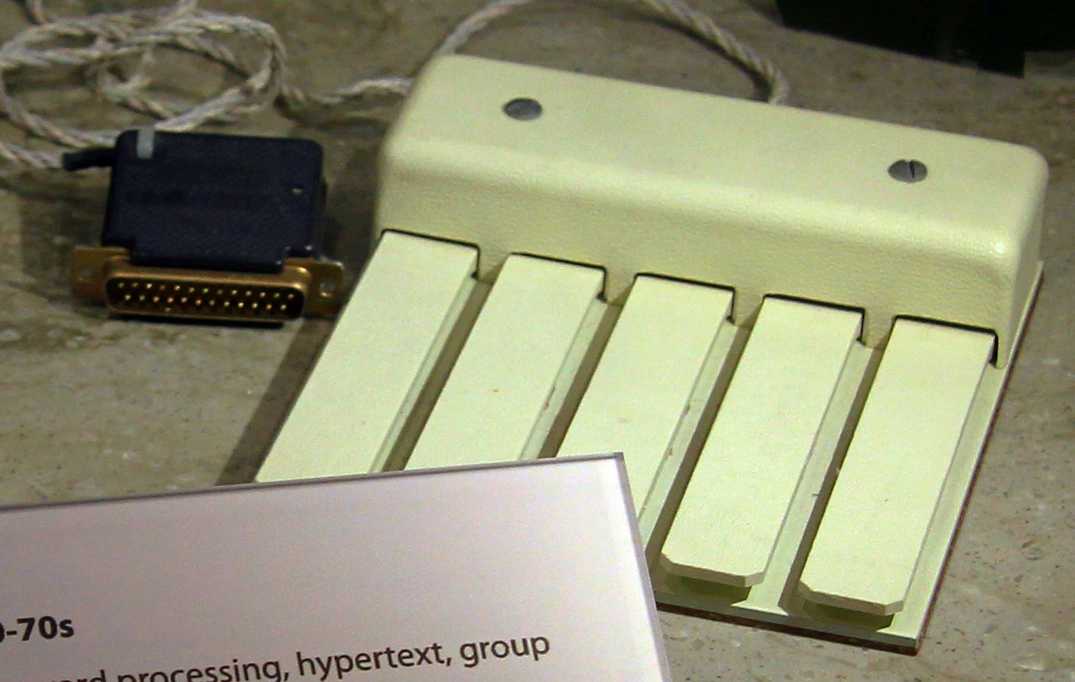 Three-button mouse and chord keyboard apparently from later versions of the from the NLS (oNLine System) previously made famous in Doug Engelbart's "Mother of all demos".